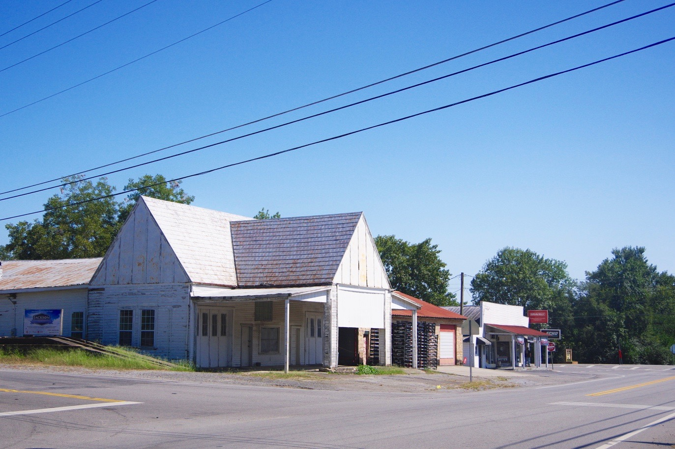 Businesses along U.S. Route 231 in Cleveland, Alabama, United States.